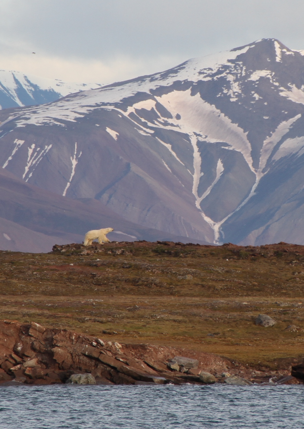 Polar bear (Ursus maritimus) at the Andøyane islets in the Liefdefjorden fiord, northern Spitsbergen, Svalbard. Seen towards the east (Andree Land in the background).